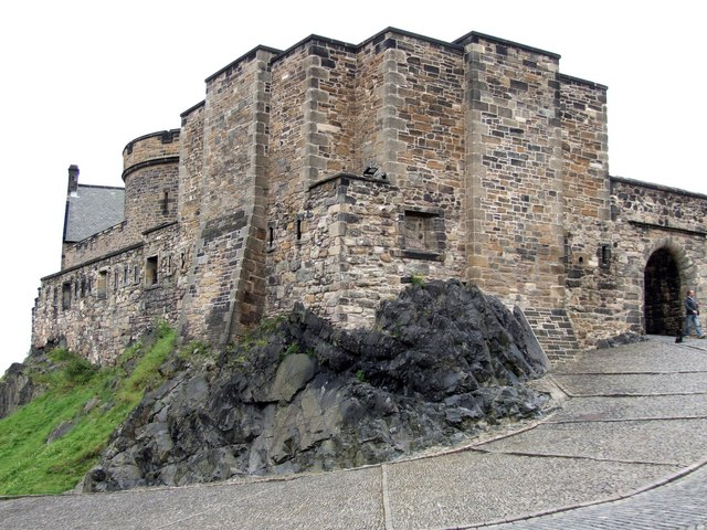 Edinburgh Castle, Edinburgh Edinburgh Castle's Reservoir.